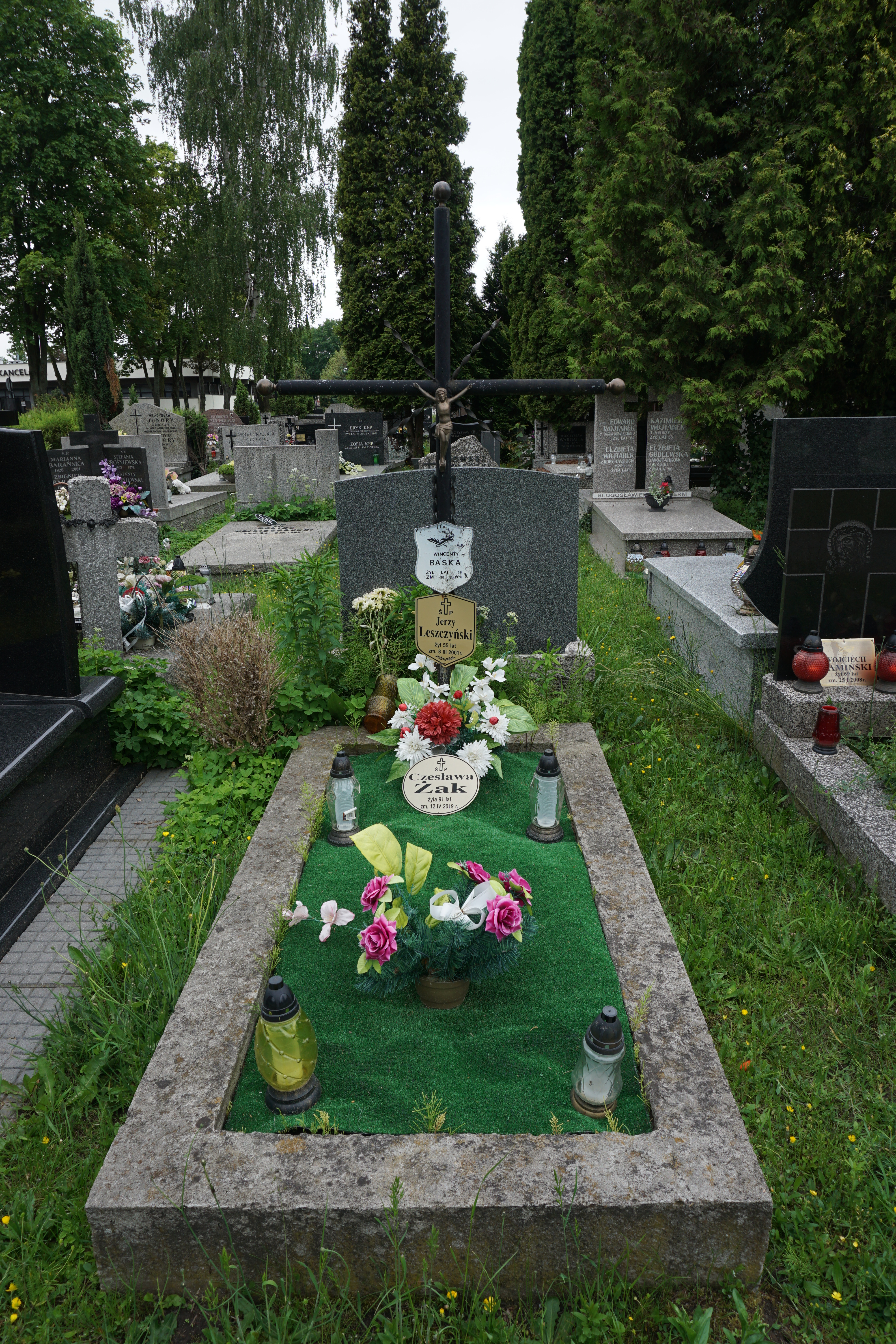 The grave of Czesława Żak at the North Municipal Cemetery in Warsaw (section E-III-7, row 1, grave 5)